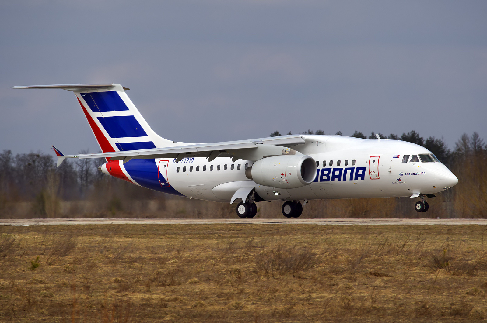 CU-T1710 (cn 201-01) The first batch-production An-158 - the first flight in Cubana colours